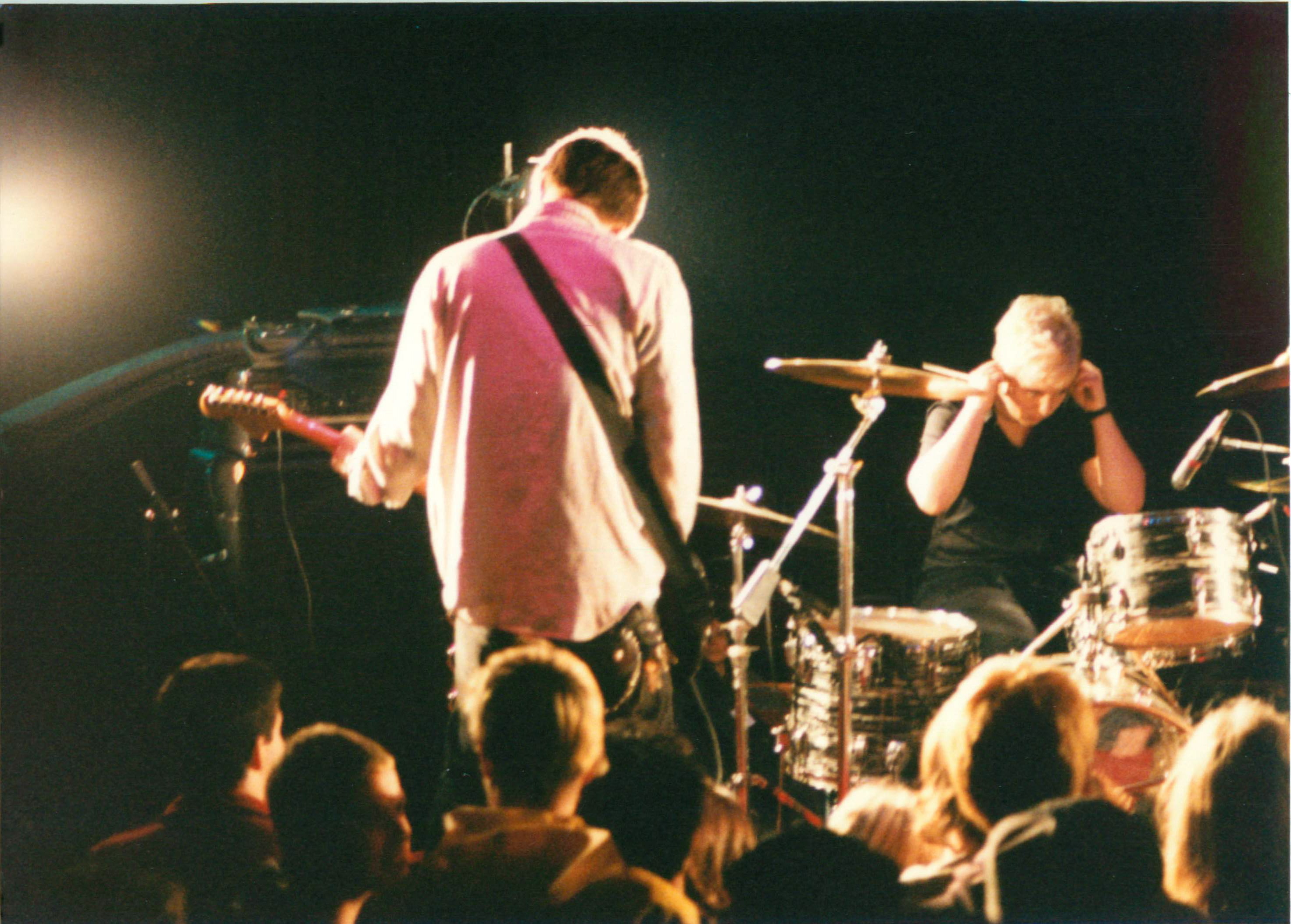 Unwound